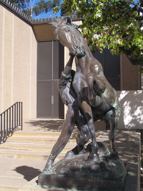 Horse Trainer by Anna Hyatt Huntington located in Balboa Park, San Diego, California